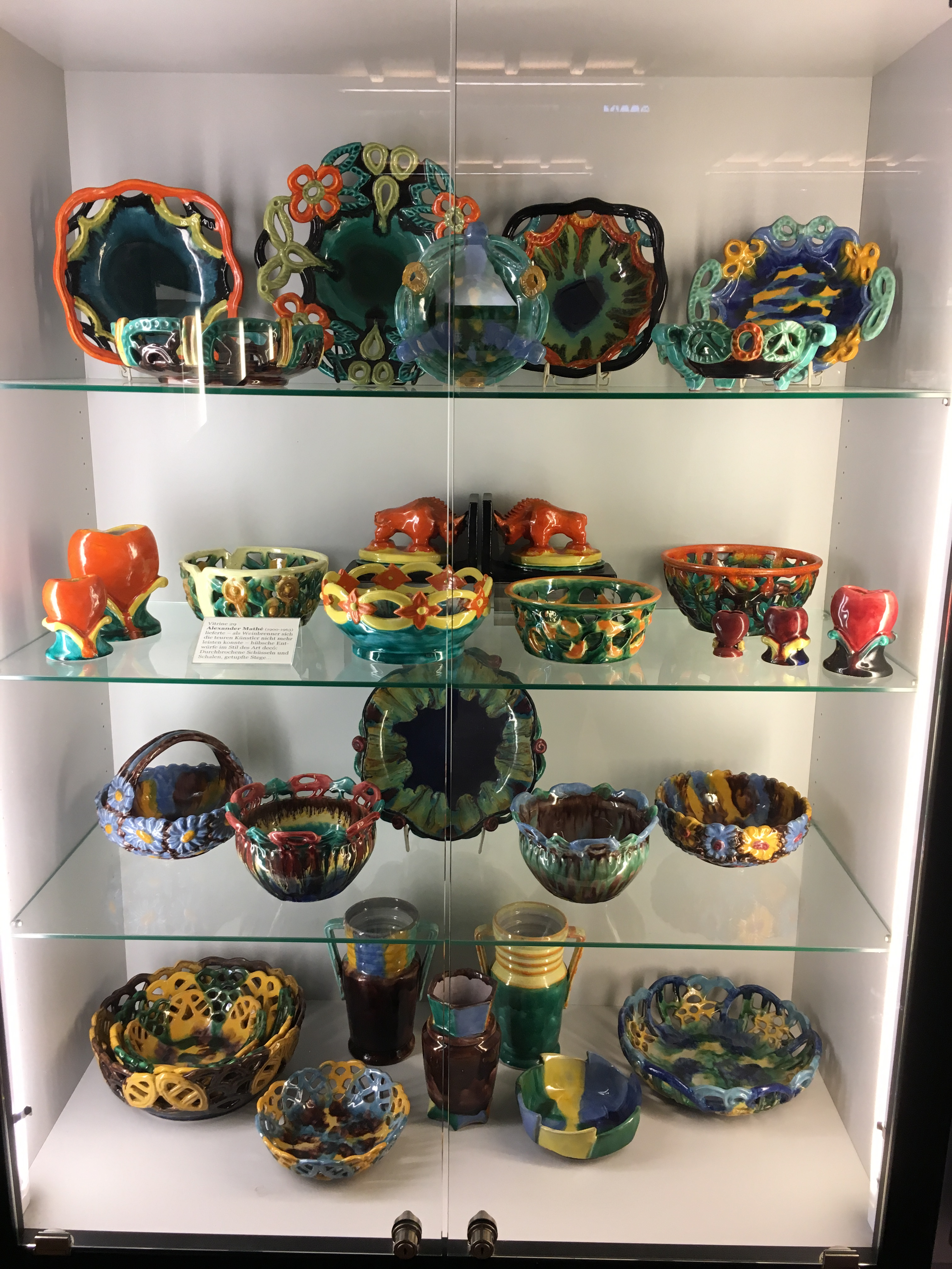 Tonindustrie Scheibbs Art deco